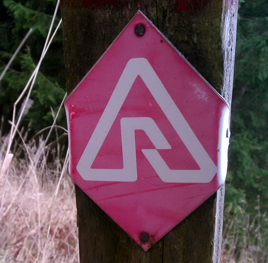 Plate with the logo of the former Swedish Rescue Services Agency (Swedish name: Statens räddningsverk) marking the boundary of the training area outside of Skövde, Sweden.